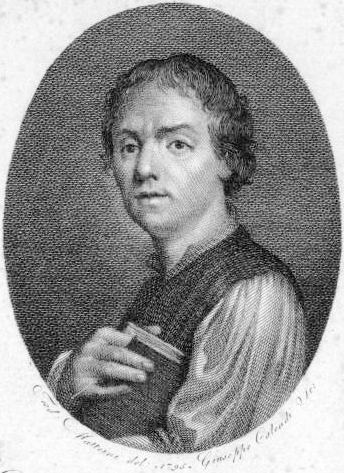 Italian writer, playwright, and composer Girolamo Parabosco (ca. 1524-1577) by Giuseppe Calendi (1761-1831).